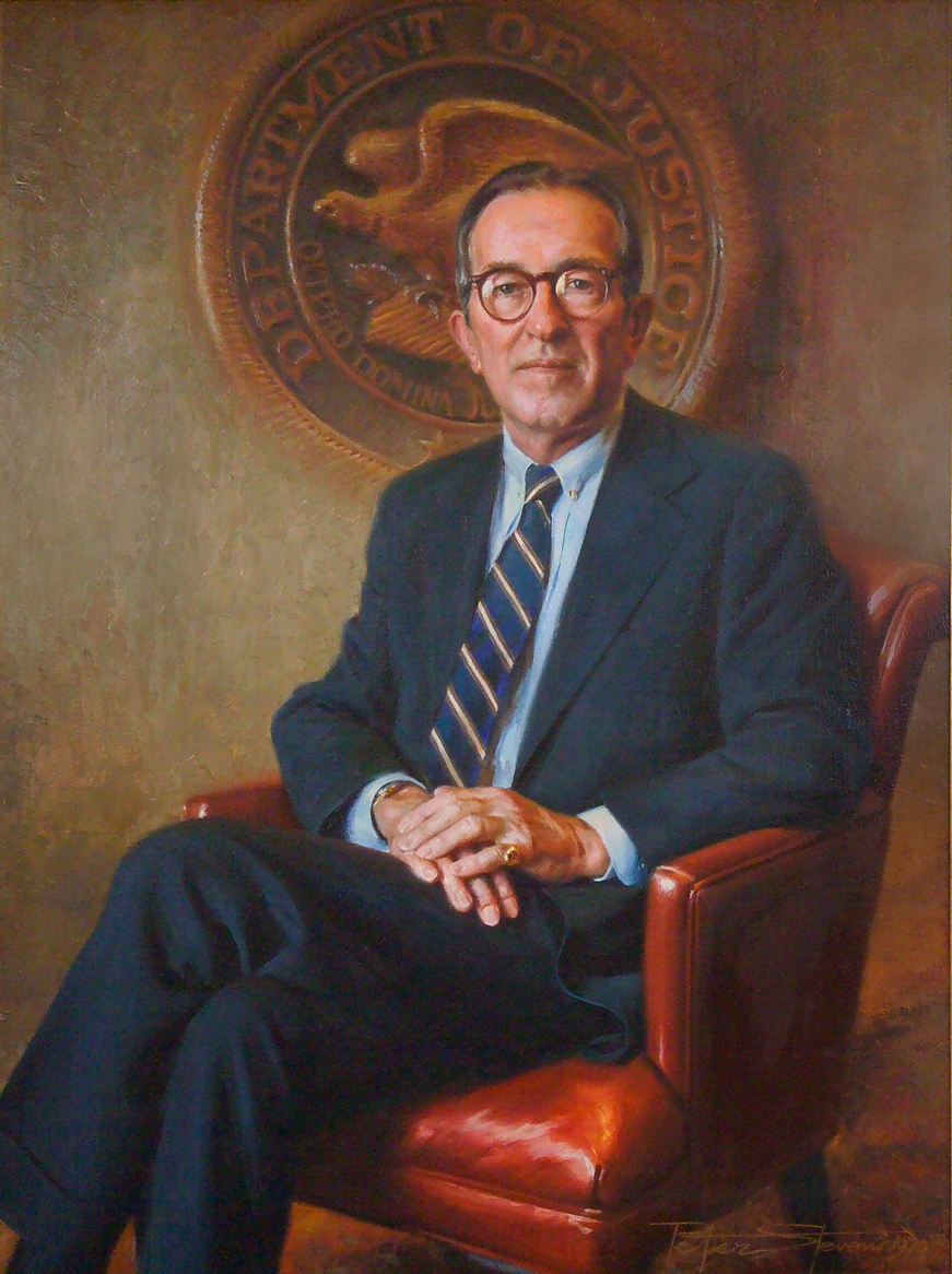 Official United States Department of Justice portrait of Griffin B. Bell, 72nd Attorney General of the United States from 1977-1979.